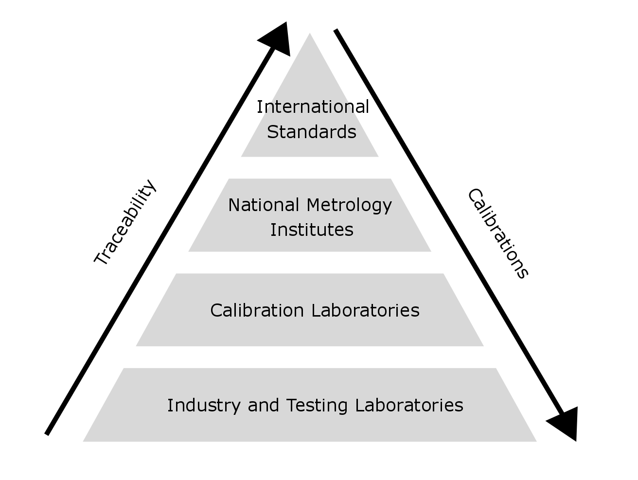 A pyramid showing the levels of metrology along with the way that traceability and calibrations run